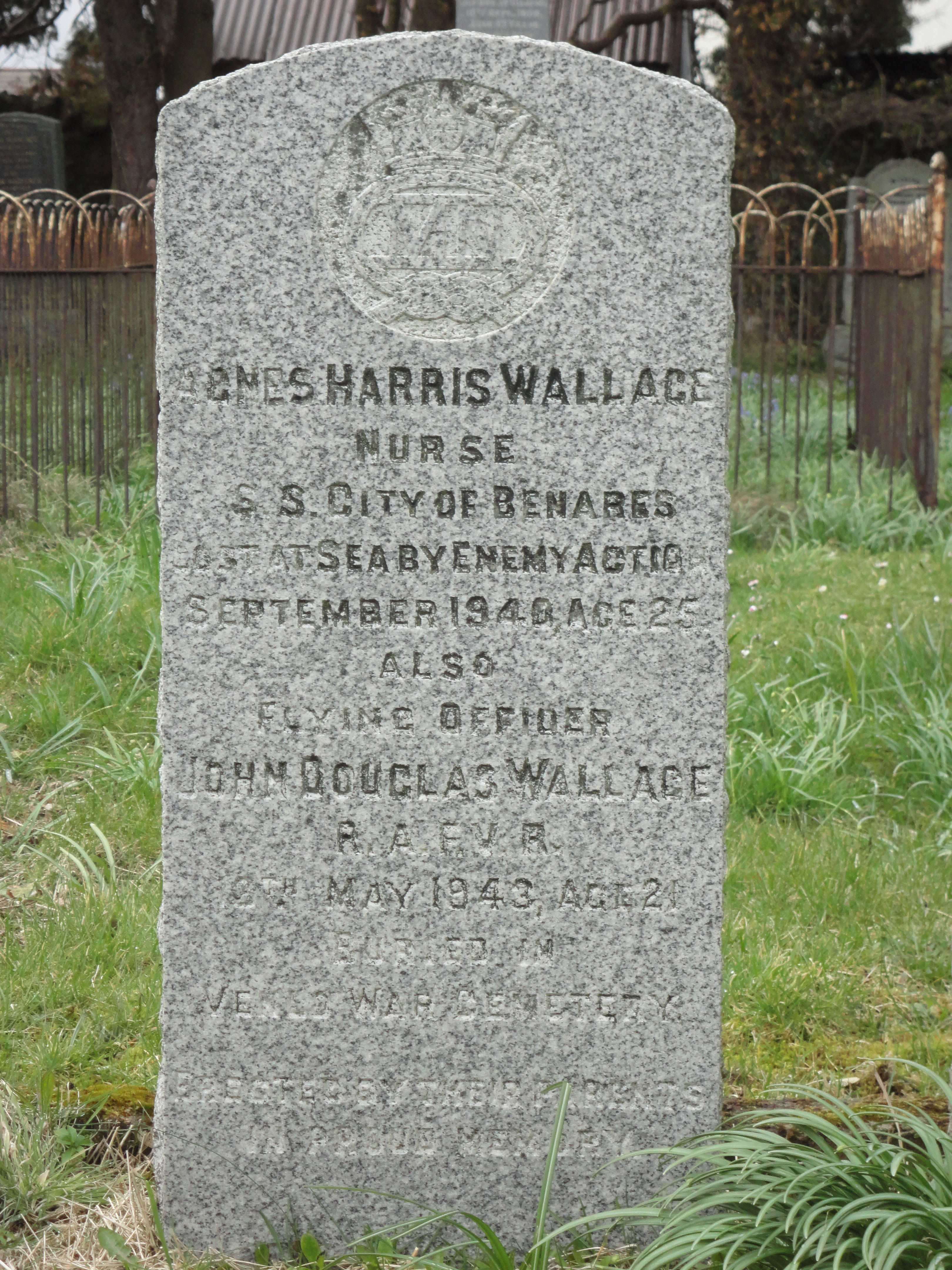 The churchyard at Ullapool Museum Telford Church: memorial to A H Wallace, lost in the sinking of the SS City of Benares 1940.